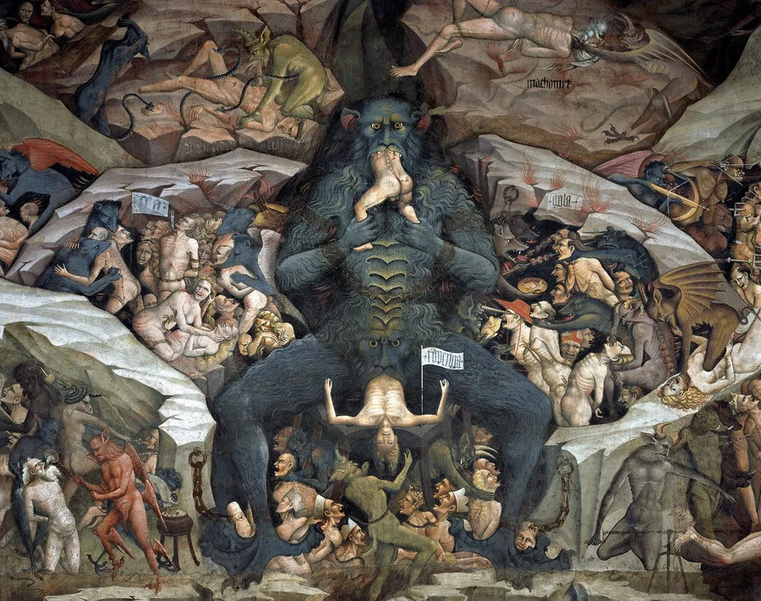 Crop of Giovanni da Modena's The Inferno depicting Hell